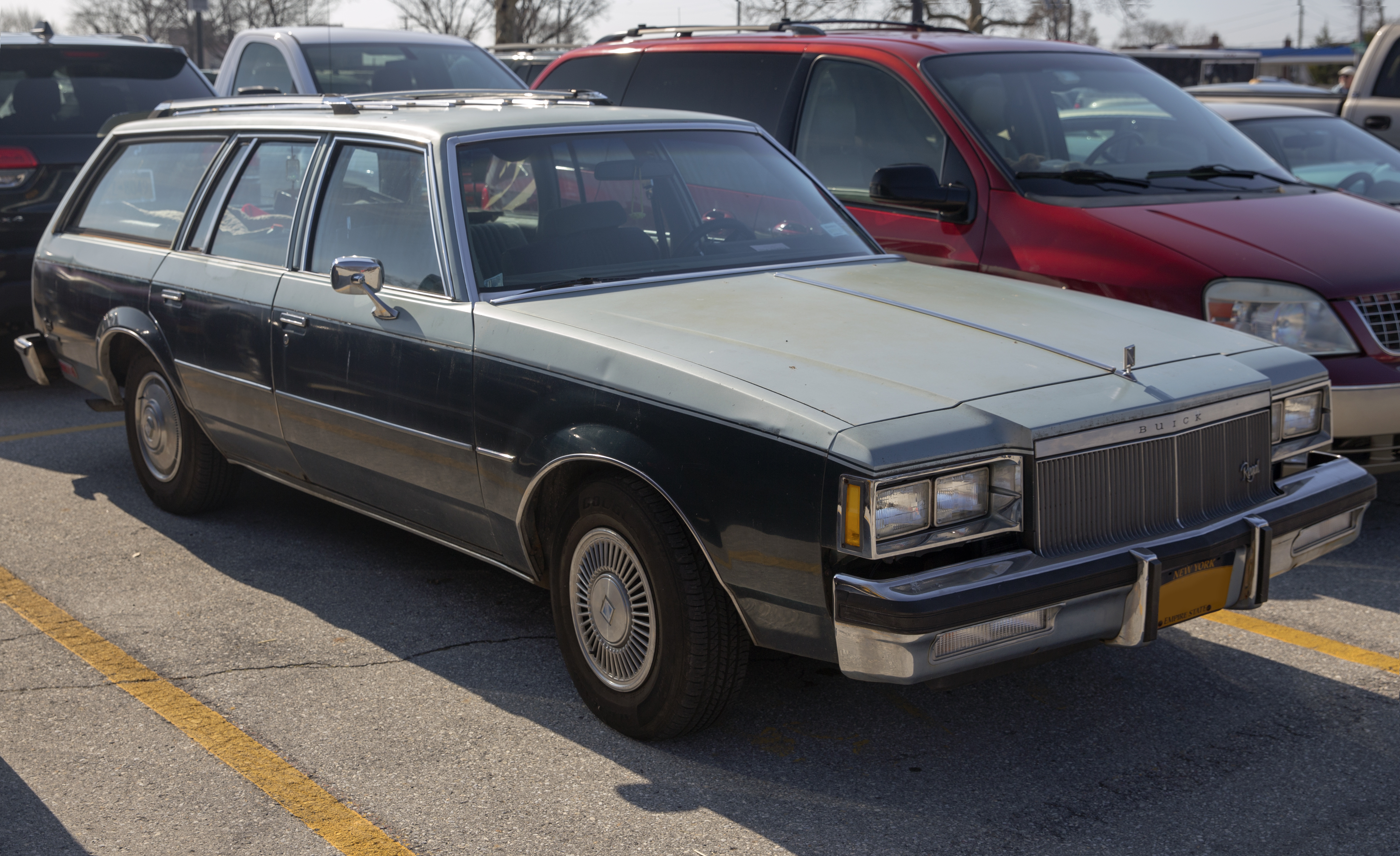 A 1982 Buick Regal Estate Wagon, a very unusual bodystyle, only available in 1982 and 1983. 14,732 were built this year. Fitted with Buick's own 4.1-liter (252ci) V6 engine, presumably with 125hp.